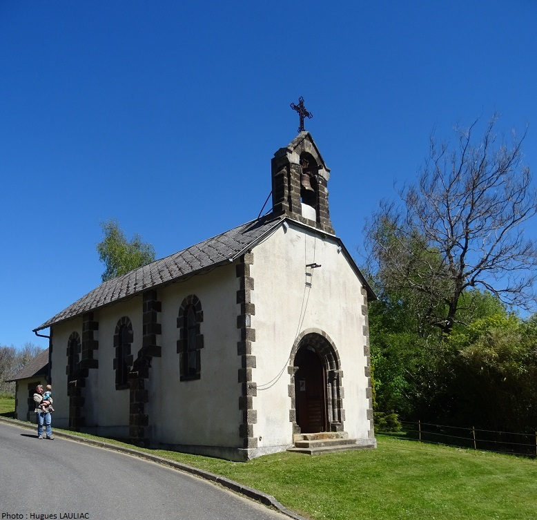 Eglise Saint Gilles, St Gilles les Fôrets